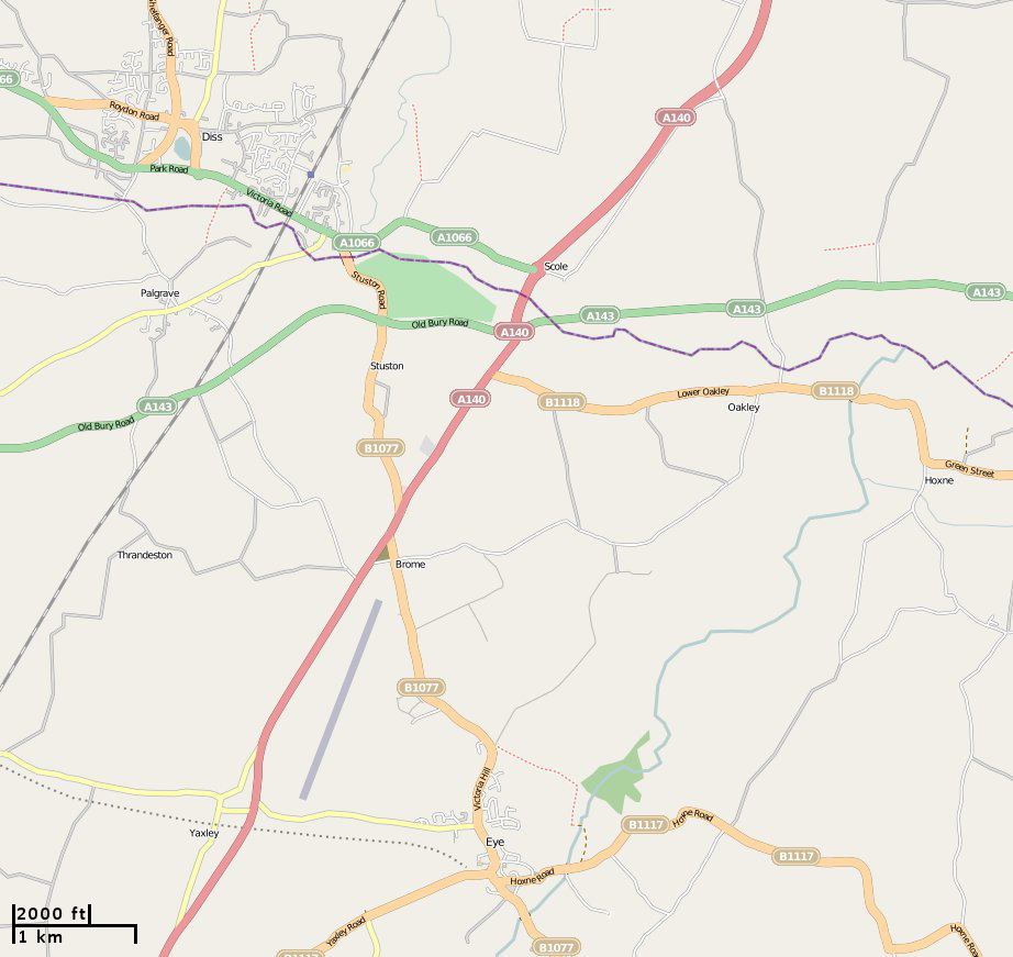 jpg of Hoxne Hoard area in Suffolk